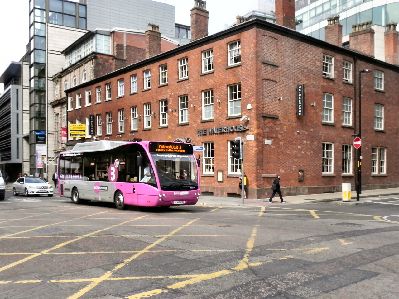 First Manchester hybrid bus 49107 (reg. YJ60 KDK) operating the free Manchester Metroshuttle route 3, passes the Waterhouse, a bar/restaurant on Princess Street, in Manchester city centre.